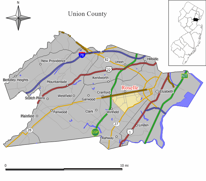 Source: Jim Irwin Original work by Jim Irwin, December 2005.